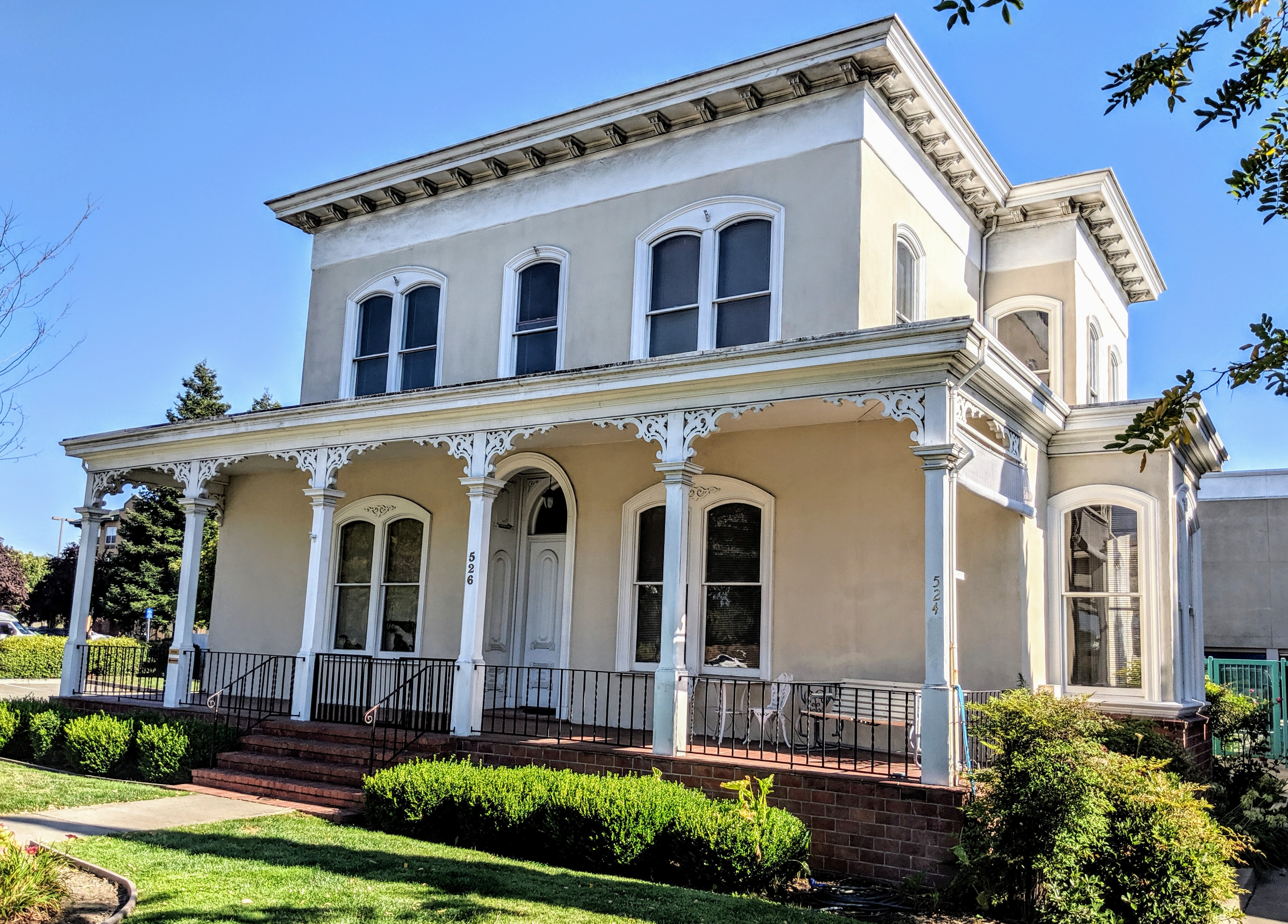 A family home built by entrepreneur William Roberts in San Lorenzo, California in 1859. The current address is 526 Lewelling Boulevard, San Lorenzo. Photo by Jim Heaphy.